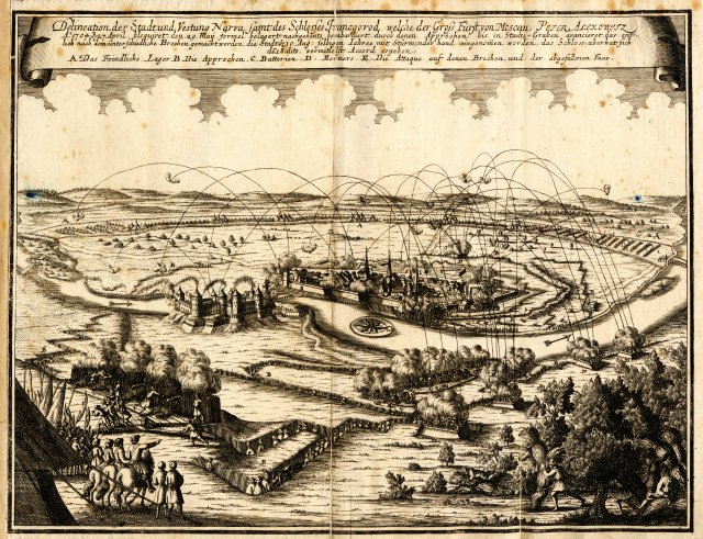 Scan from Johann Christoph Brotze's book Sammlung verschiedner Liefländischer Monumente. A better description (in German) may be availale on the source site (linked below) - the image name (except for m at the end) corresponds to ID on that site e.g. BM01129A means volume 1 (1. sējuma...), scan 129A. "Delineation der Stadt und Vestung Narva, samt des Schlosses Ivanogorod, welche der Gross Fürst von Moscau Peter Alexowitz Anno 1704 der 27 April bloquiret ... [die Gravüre]."